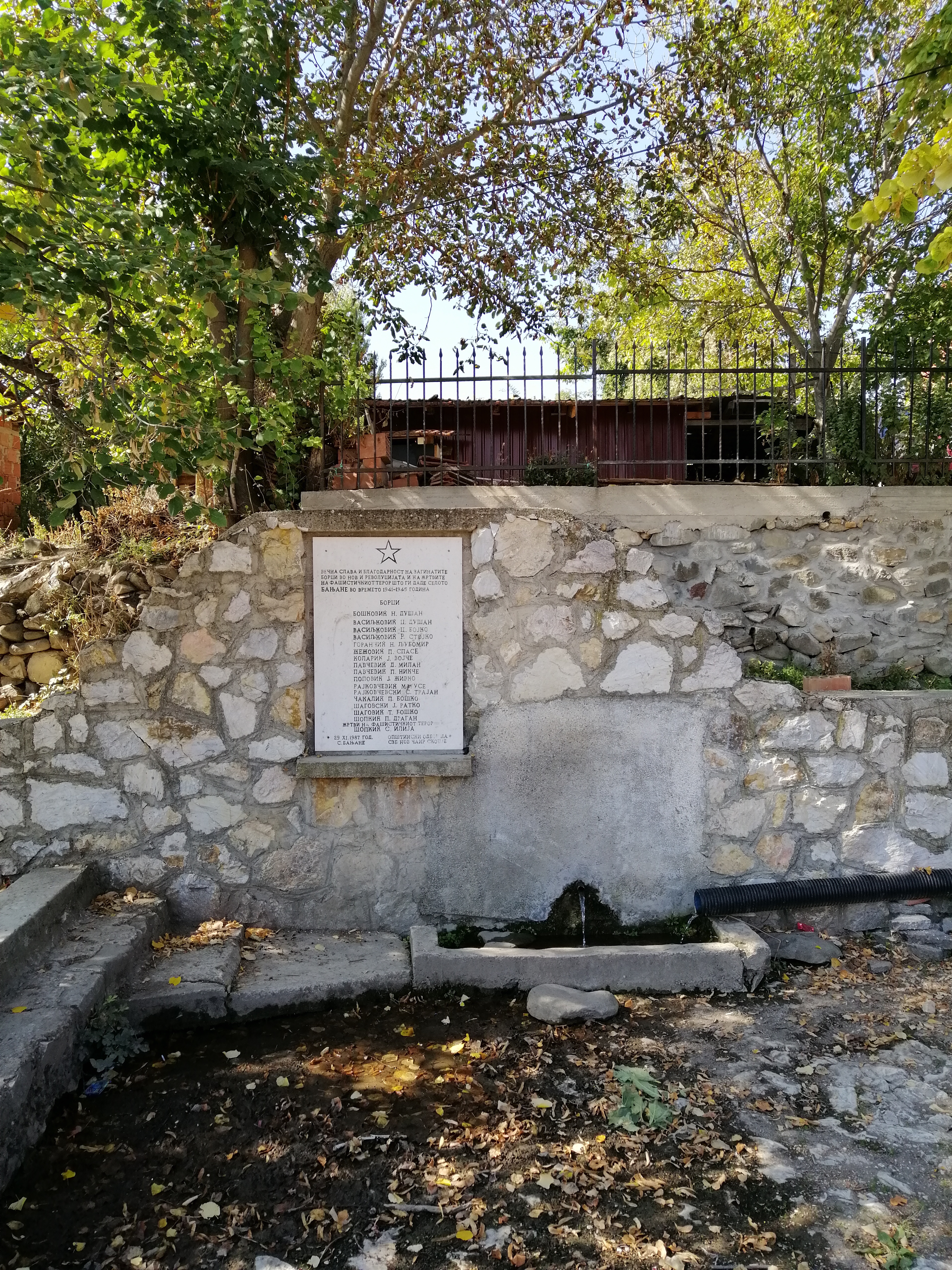 Memorial plaque in the village Banjane